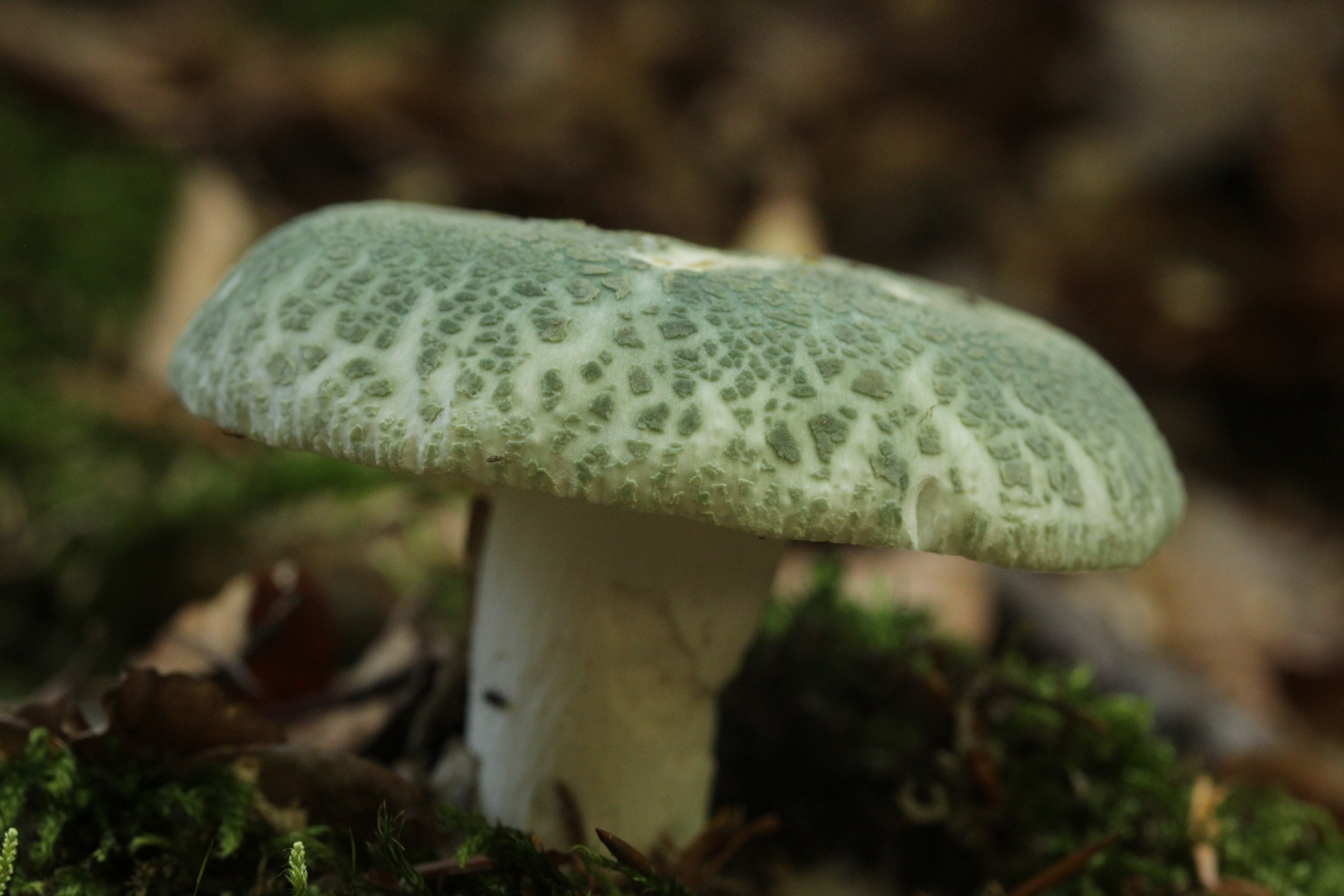 Green-cracking Russula - Russula virescens